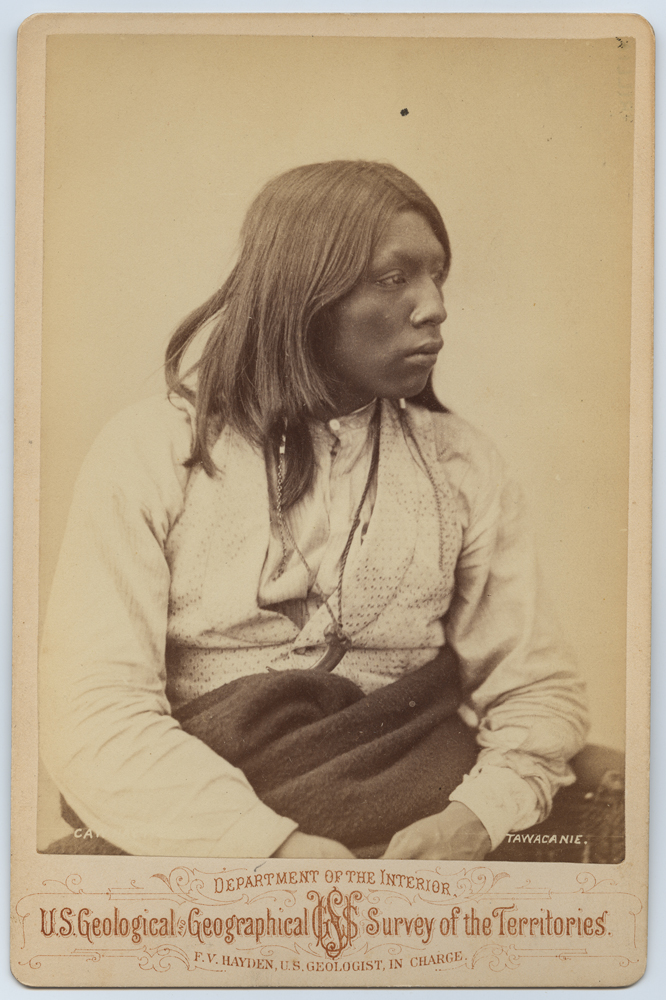 Title: Caw-hac-its-ca, Tawacanie Creator: Gardner, Alexander, 1821-1882 Date: 1872 Part Of: Gardner cartes de visite and portraits/ Physical Description: 1 photographic print on cabinet card mount: albumen; 17 x 11 cm File: ag2005_0004_25_caw_opt.jpg Rights: Please cite DeGolyer Library, Southern Methodist University when using this file. A high-resolution version of this file may be obtained for a fee. For details see the web page. For other information, . For more information, View U.S. West: Photographs, Manuscripts, and Imprints